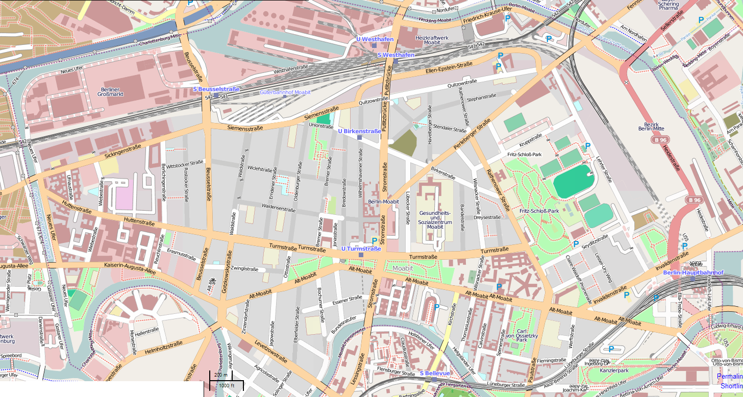 This map of Moabit was created from OpenStreetMap project data, collected by the community.This map may be incomplete, and may contain errors. Don't rely solely on it for navigation.